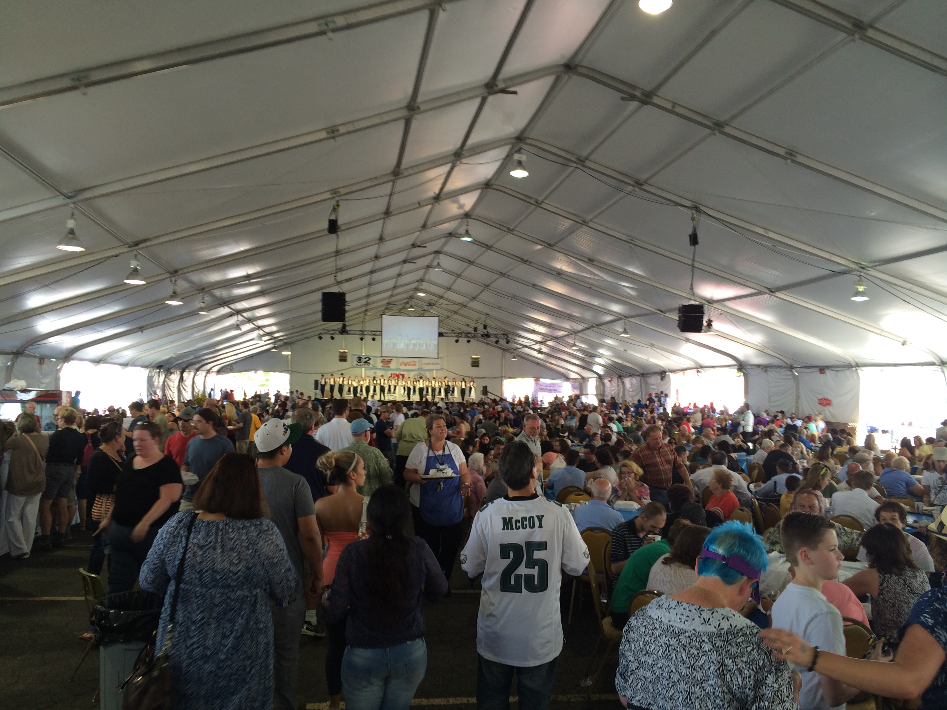 Attendees eating and watching live dancers at the 2014 Greek Festival in Salt Lake City, Utah